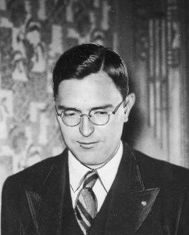 Max Euwe in 1937 during WC match draw